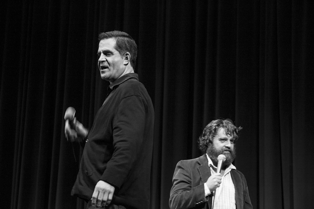 Todd Glass & Zach Galifianakis Doug Loves Movies @ LA Pod Fest in 2012